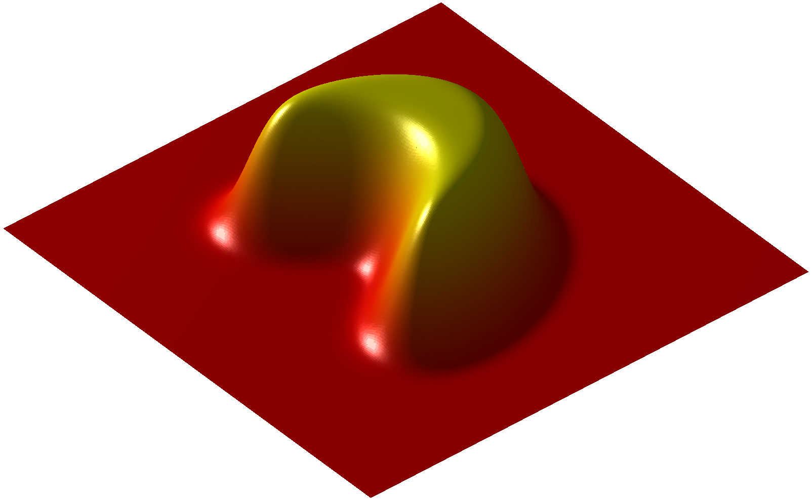 A bump function in 2D